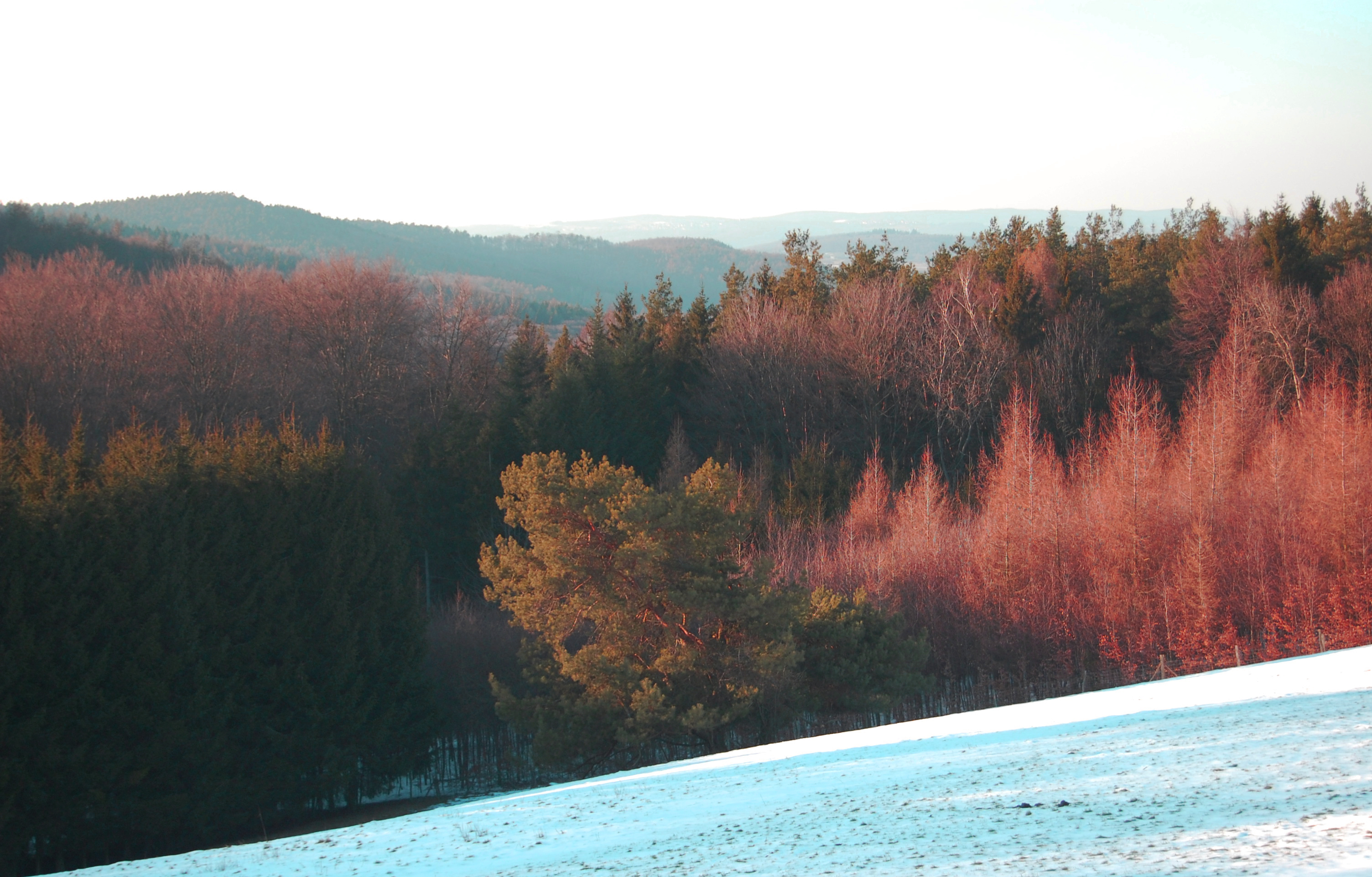 Spessart